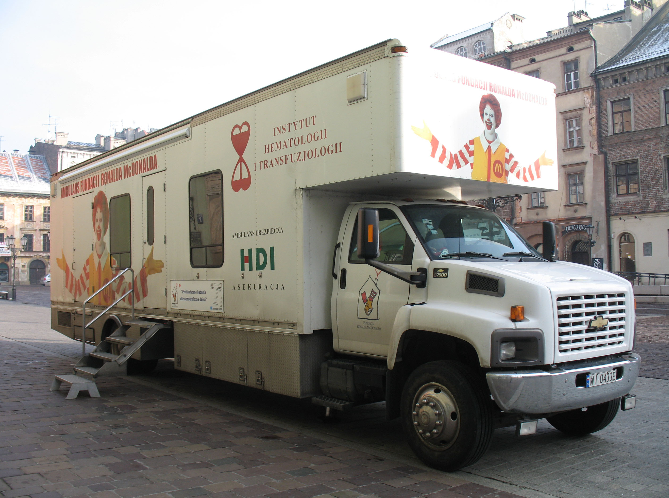 Chevrolet C7500 blood donation truck in Kraków, Poland.